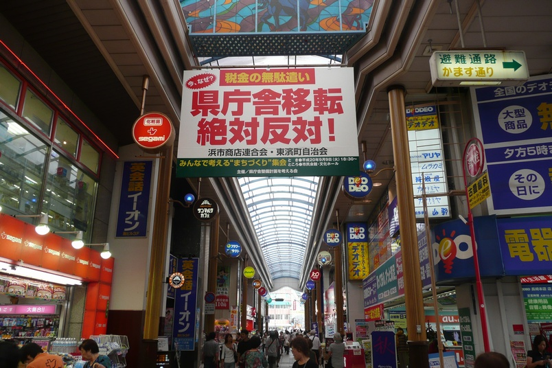 Hamanmachi (National Route 324 - Nagasaki City, Japan)